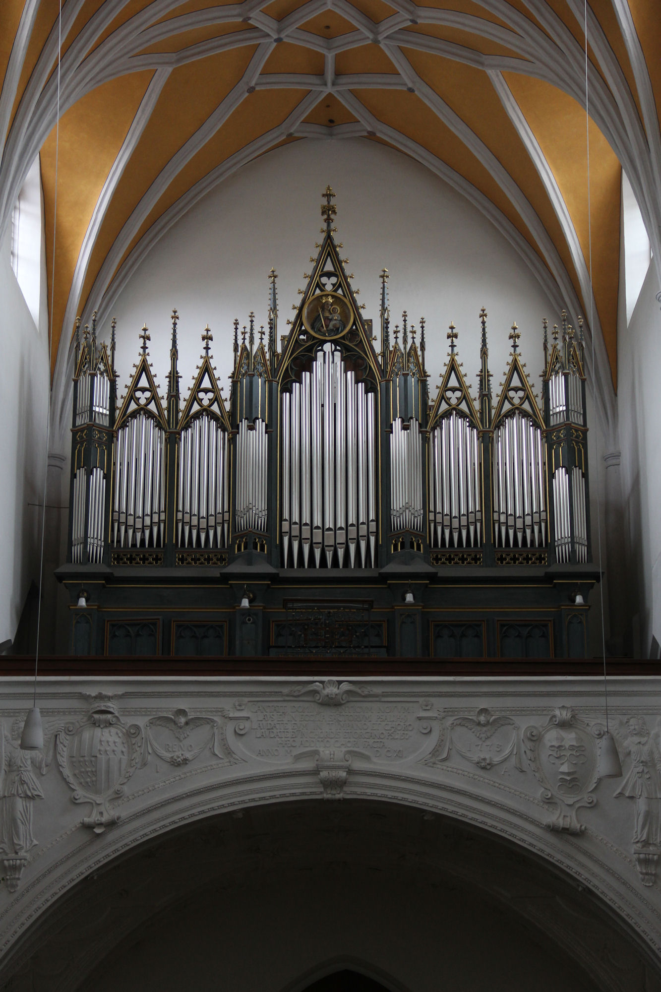 Church of St. Jodok Native nameSt. JodokLocationLandshut, Lower Bavaria, GermanyCoordinates48° 32′ 10.8″ N, 12° 09′ 27.6″ E